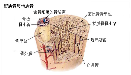 Compact bone & spongy bone Details available from source webpage.